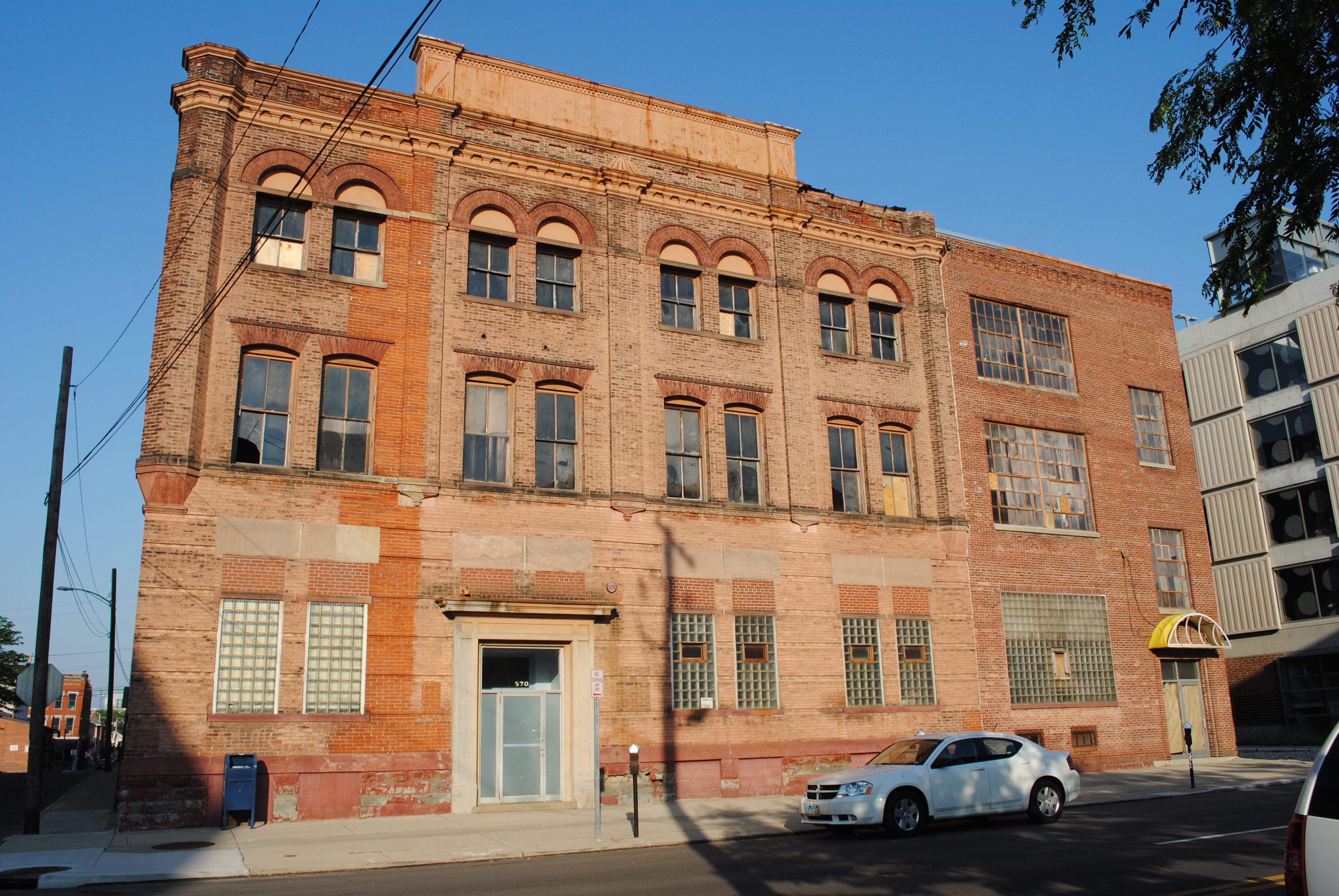 The Born Brewery Building in Columbus, Ohio